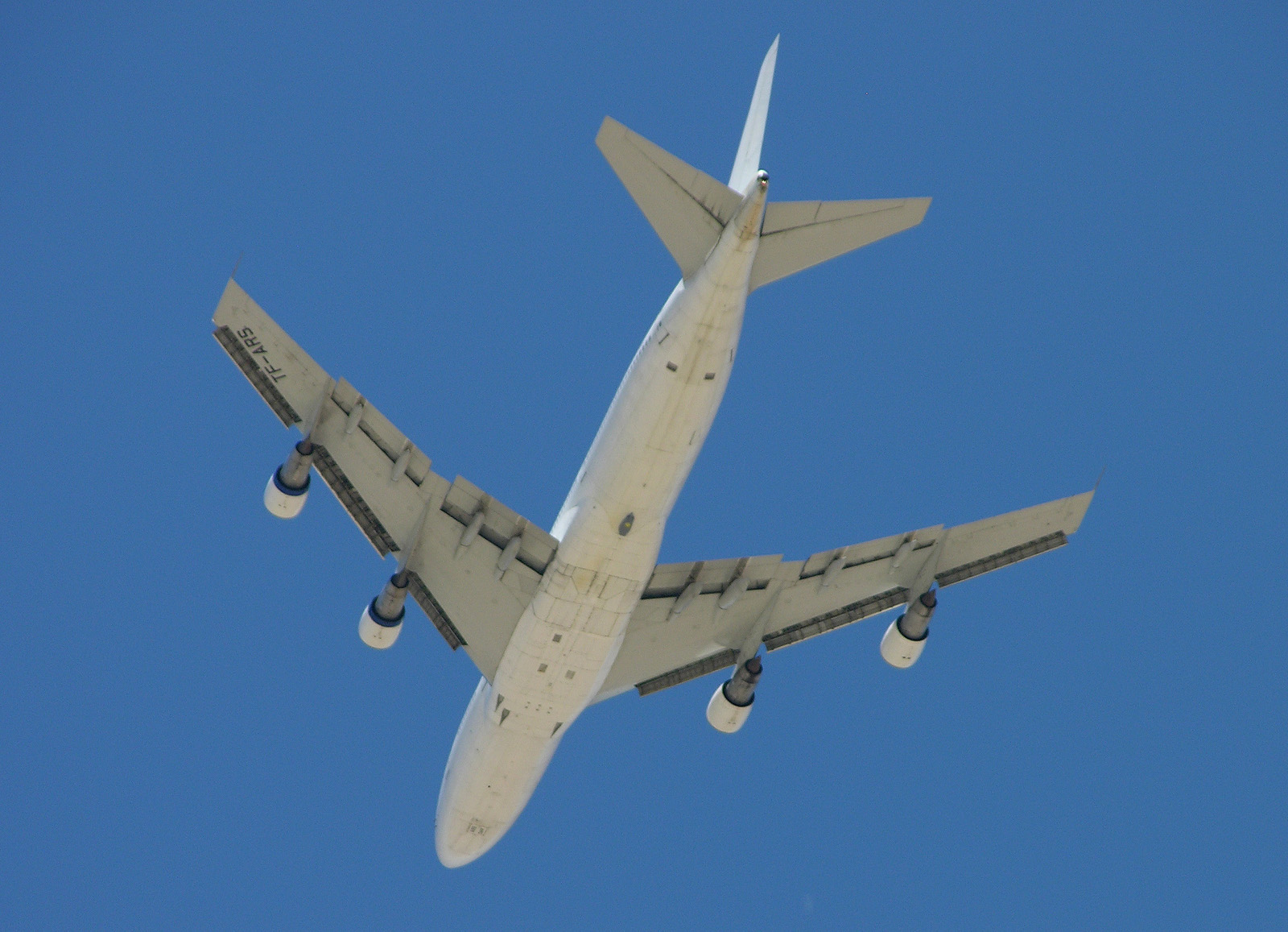 Northrop Grumman Guardian pod mounted on an Air Atlanta Europe 747-300 leased to FedEx for the pod's flight test program at Mojave